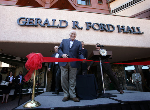 Vice President Richard Cheney unveils Gerald R. Ford Hall at the Park Hyatt in Beaver Creek, Colorado, June 23, 2007